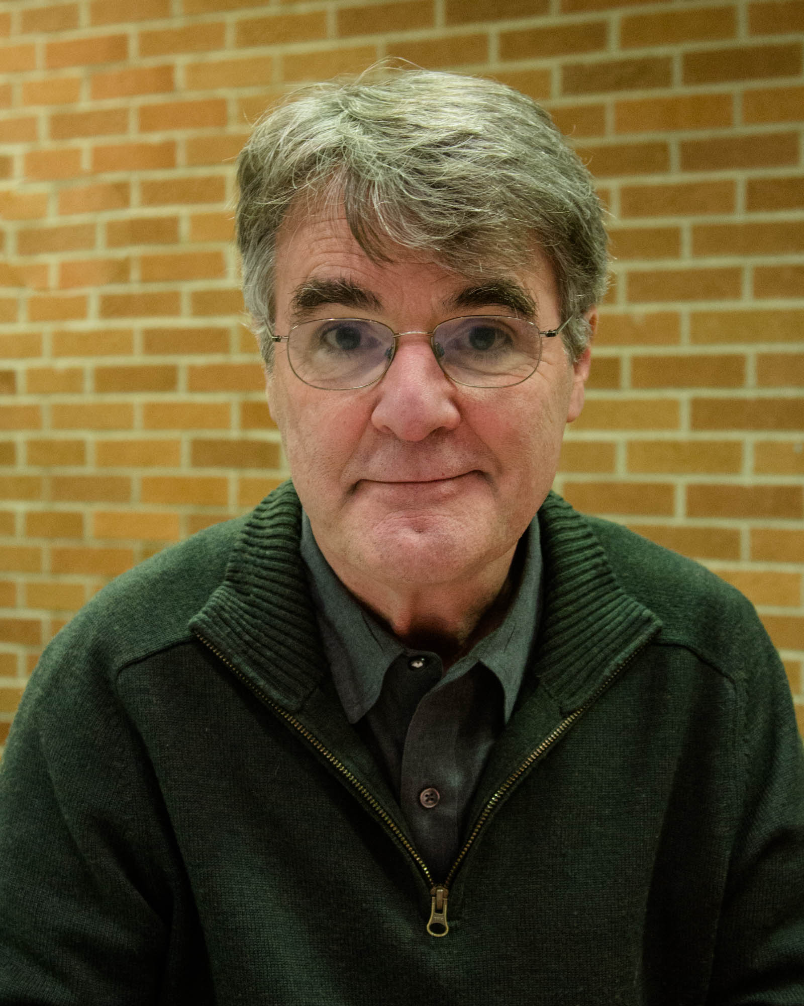 David Macaulay at the Mazza Museum 2012 Fall Conference where he received the Mazza Medallion.